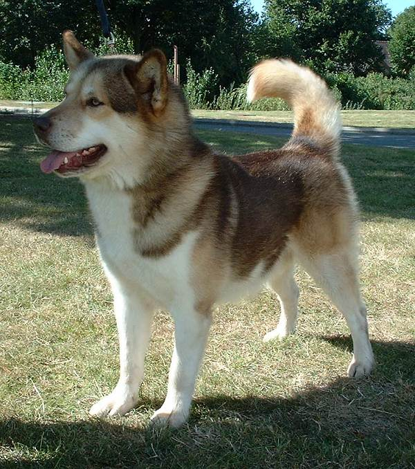 Greenland Dog. Alaskan Sunrise at Kelltara at the City of Birmingham Championship Dog Show, 30th August 2003